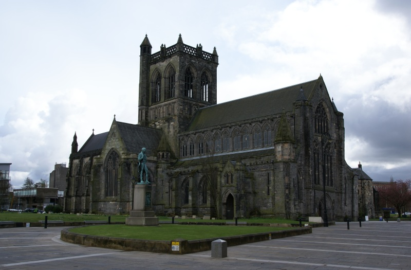 Paisley Abbey, Paisley, Renfrewshire, Scotland.